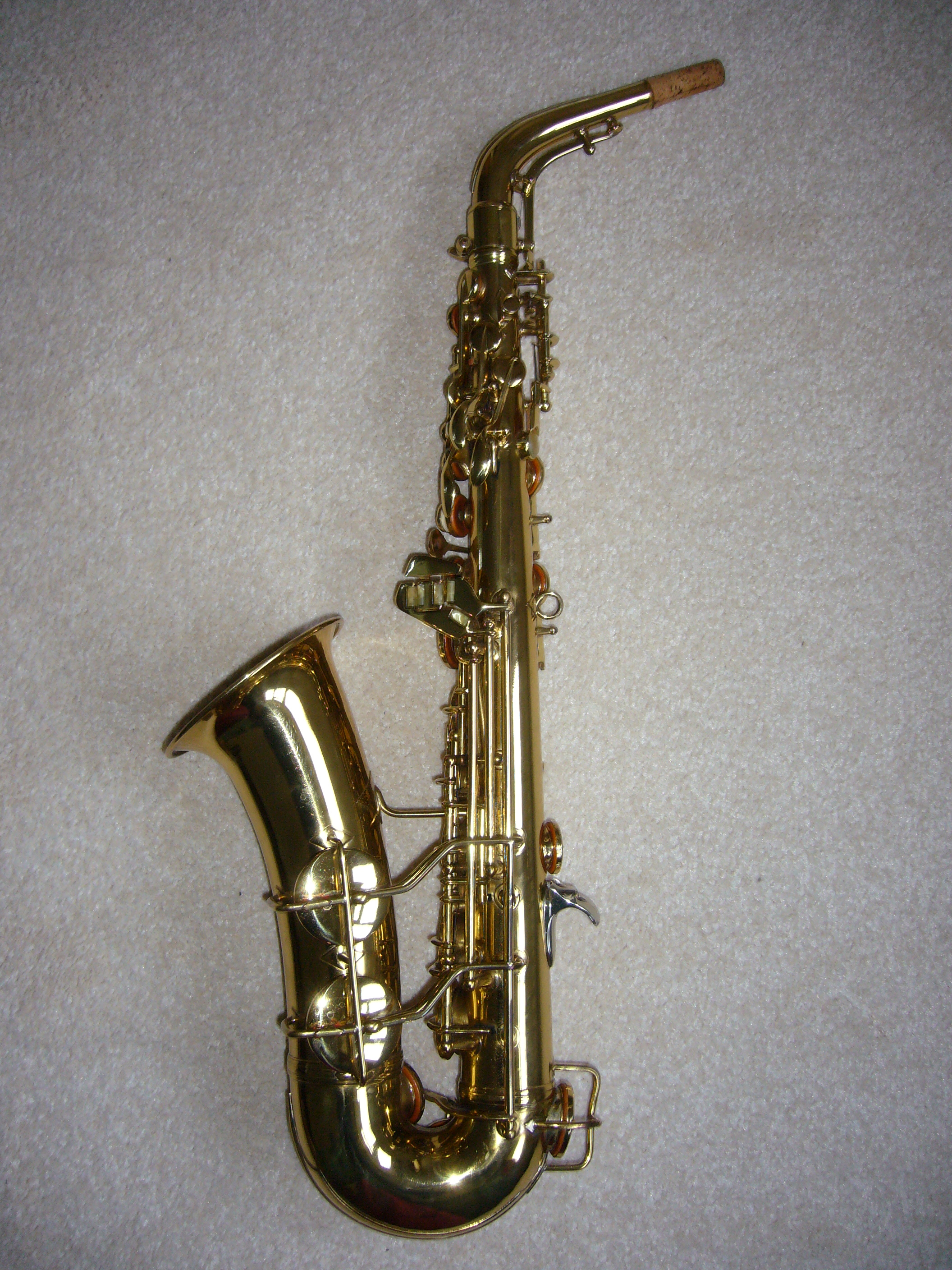 Side view #1 of Conn 6M "Lady Face" alto saxophone (SerNo dates to 1935).